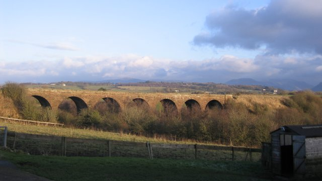 Keekle Viaduct. Built in 1878 and in this view has the overgrown area in front and the Lake District fells in the background.